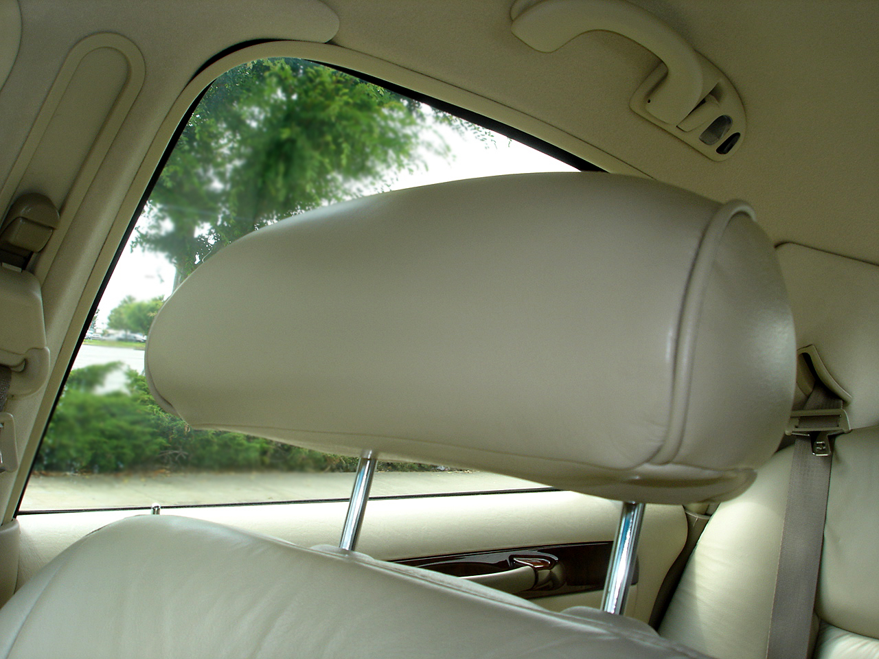 I shot the picture myself.